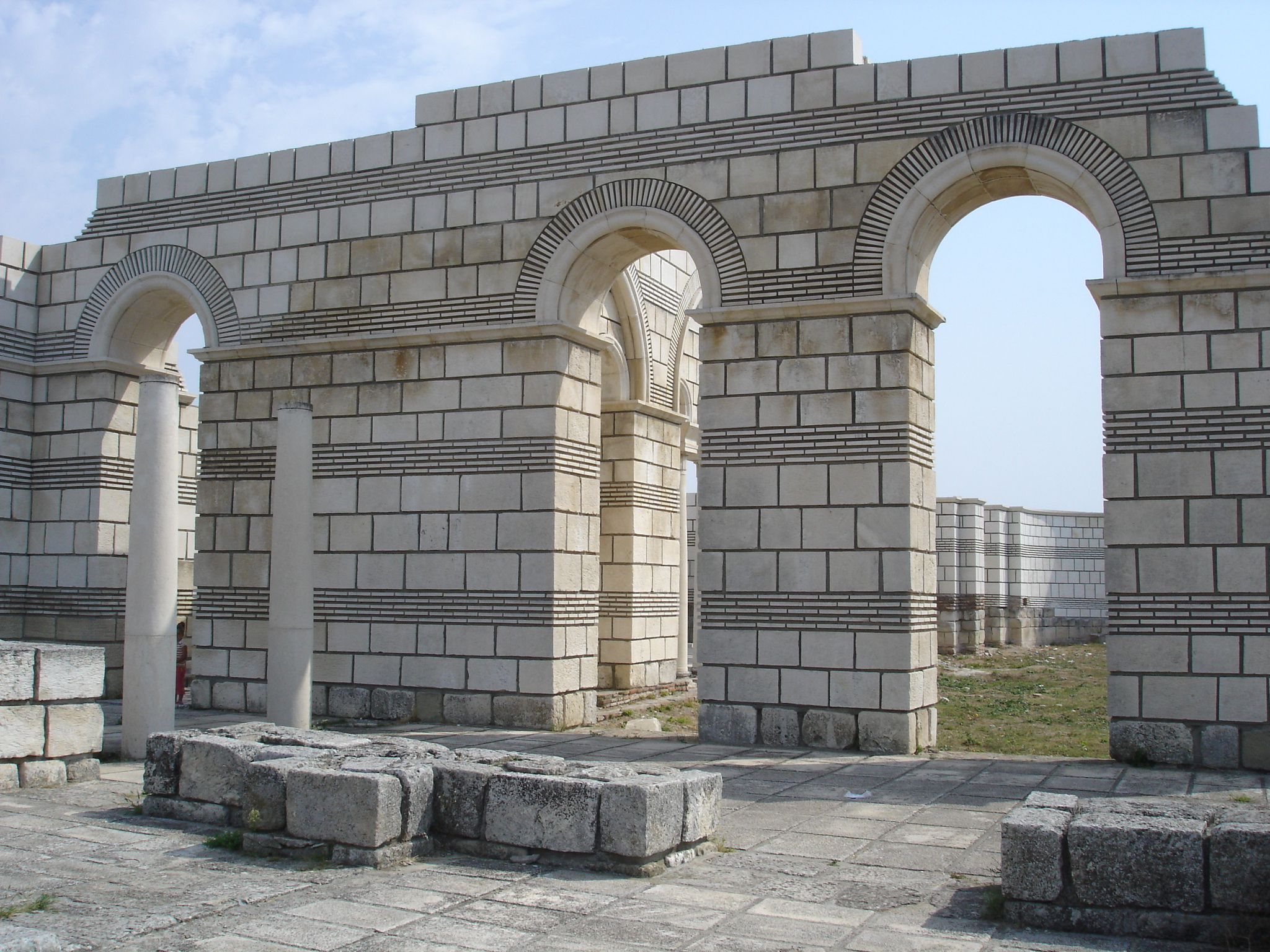 Old Basilica in First Bulgarian Capital Pliska